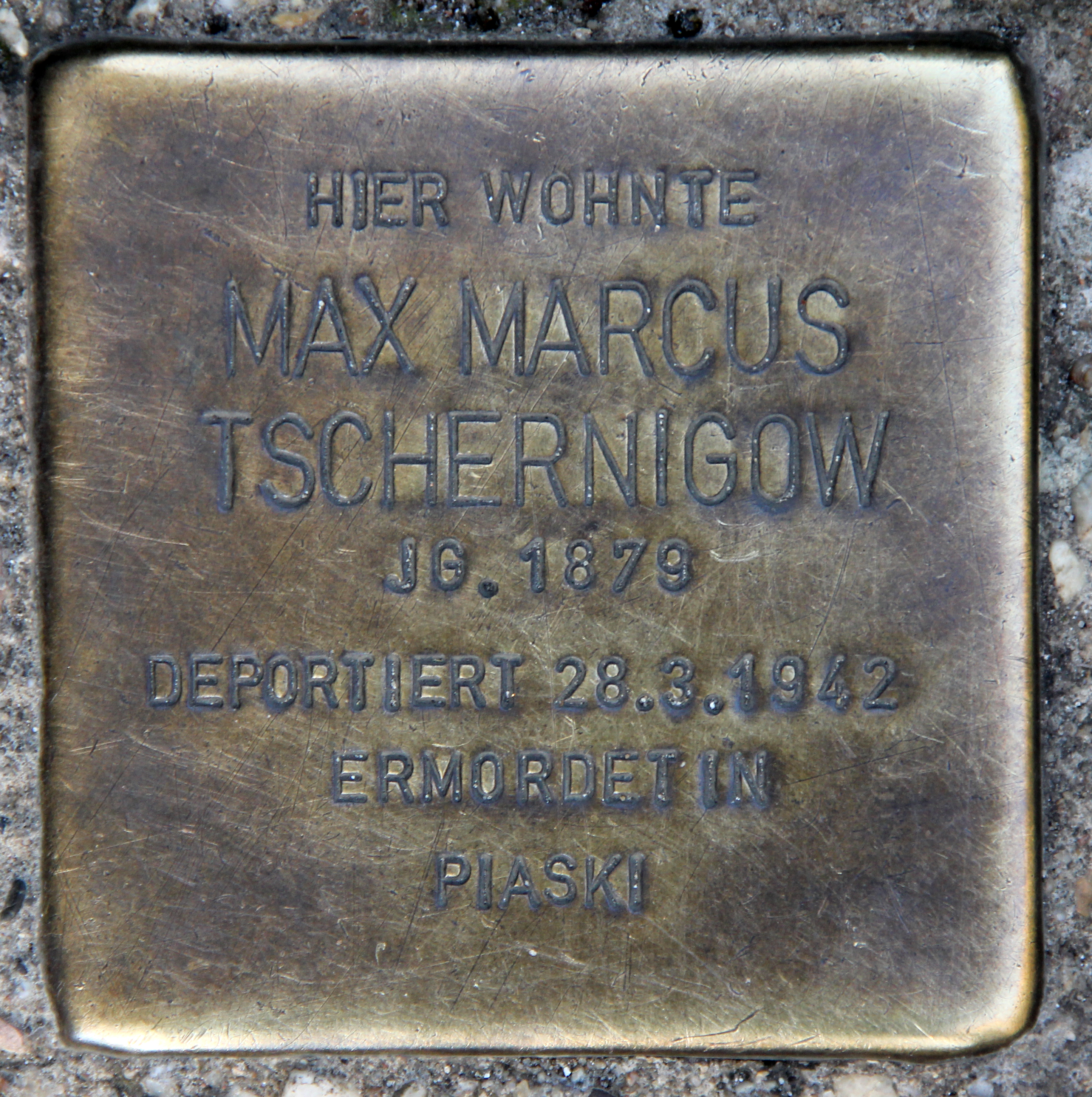 "Stolperstein" (stumbling block), Max Marcus Tschernigow, Blumenstraße 49, Berlin-Friedrichshain, Germany